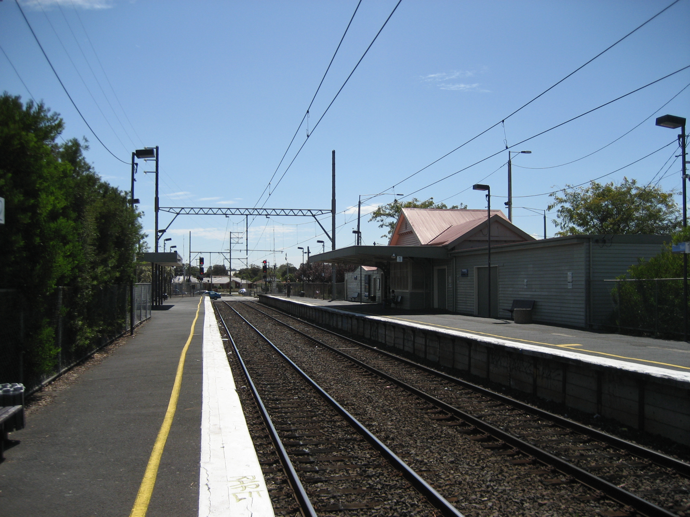 Bell railway station, Melbourne